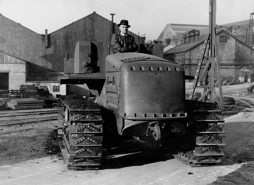 New Tractor at the Elswick Works, 24 October 1949 (TWAM ref. DS.VA/9/PH/3/3). This appears to be a prototype of the Vickers VR180. ‘Workshop of the World’ is a phrase often used to describe Britain’s manufacturing dominance during the Nineteenth Century. It’s also a very apt description for the Elswick Works and Scotswood Works of Vickers Armstrong and its predecessor companies. These great factories, situated in Newcastle along the banks of the River Tyne, employed hundreds of thousands of men and women and built a huge variety of products for customers around the globe. The Elswick Works was established by William George Armstrong (later Lord Armstrong) in 1847 to manufacture hydraulic cranes. From these relatively humble beginnings the company diversified into many fields including shipbuilding, armaments and locomotives. By 1953 the Elswick Works covered 70 acres and extended over a mile along the River Tyne. This set of images, mostly taken from our Vickers Armstrong collection, includes fascinating views of the factories at Elswick and Scotswood, the products they produced and the people that worked there. By preserving these archives we can ensure that their legacy lives on. (Copyright) We're happy for you to share this digital image within the spirit of The Commons. Please cite 'Tyne & Wear Archives & Museums' when reusing. Certain restrictions on high quality reproductions and commercial use of the original physical version apply though; if you're unsure please .